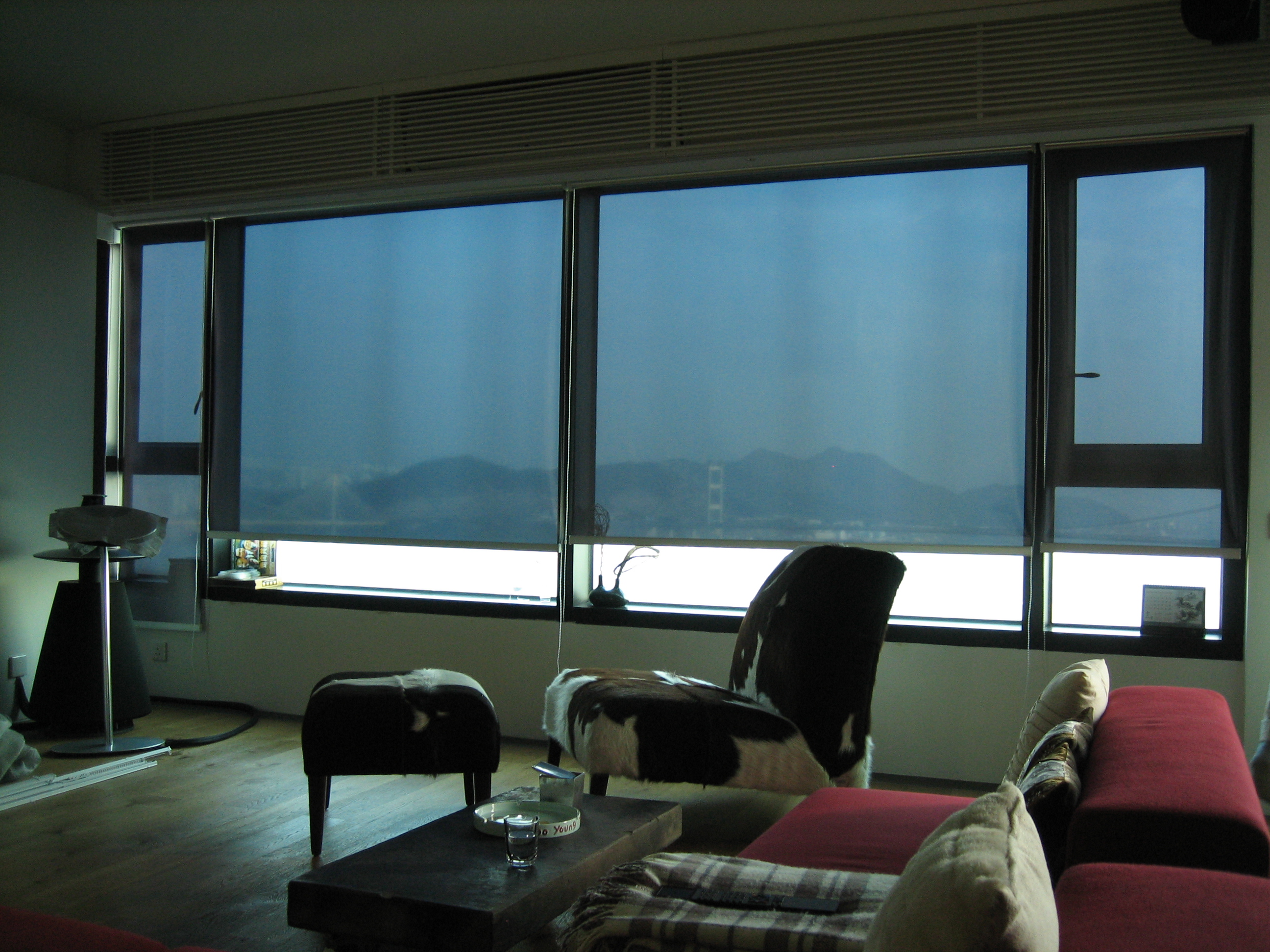 solcon shades